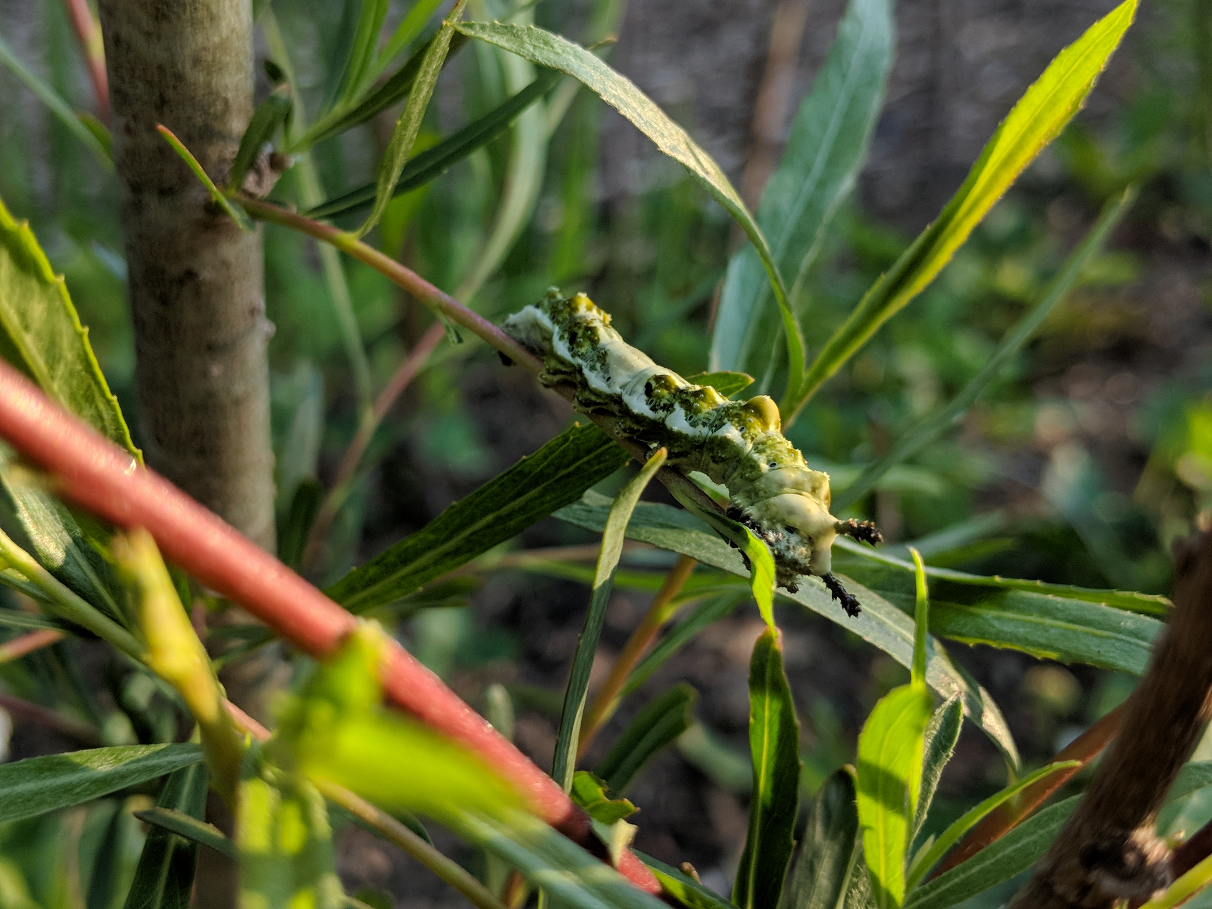 Limenitis arthemis caterpillar feeding on a willow tree.